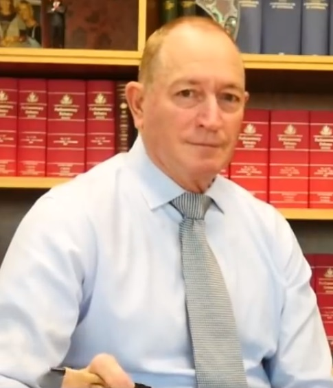 While the Unshackled was up in Brisbane for LibertyFest we had the opportunity to interview the politician in Australia who has really rattled the political establishment these past few months Katter Australian Party Senator William Fraser Anning in his Brisbane city office. He begins by explaining how he has seen traditional Australia change over his lifetime and what motivated him to become politically active and join Pauline Hanson's One Nation in the 1990s.He describes why he become a One Nation candidate in 2016 and why on his first day left to sit as independent despite his 20 year history with the party and Pauline Hanson. He explains why he chose Katter's Australian Party as his new political home and how it is different from One Nation. We inquire about what he set out to achieve with his maiden speech and why he chose not to apologize for using the phrase final solution when calling for a plebiscite about further immigration to Australia. Given that his speech has seen Australian nationalists rally around him we ask him why the nationalist vote has been so neglected in Australia. We look at another controversial speech he made in the Senate about the Safe Schools program labeling it designed by commo perverts who would be strung up in his day. Given that he, Pauline Hanson with her 'It's okay to be white' motion and David Leyonhjelm with his war with Sarah Hanson-Young are all creating controversy in a bid to be re-elected we ask Senator Anning if he believes this is good for Australian democracy. Show Notes Page: Free eBook: The Unshackled Podcasts: The Unshackled Waves: Front and Center